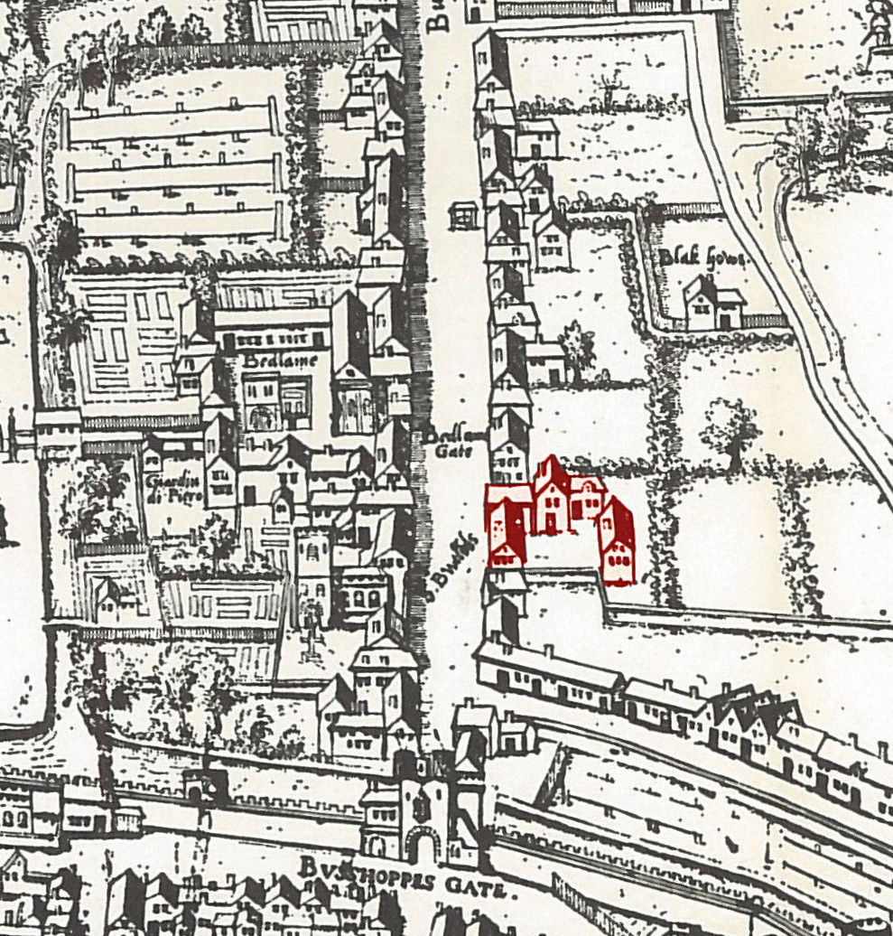 Plate from the "Copperplate" map of London, 1550s, showing the Moorfields area